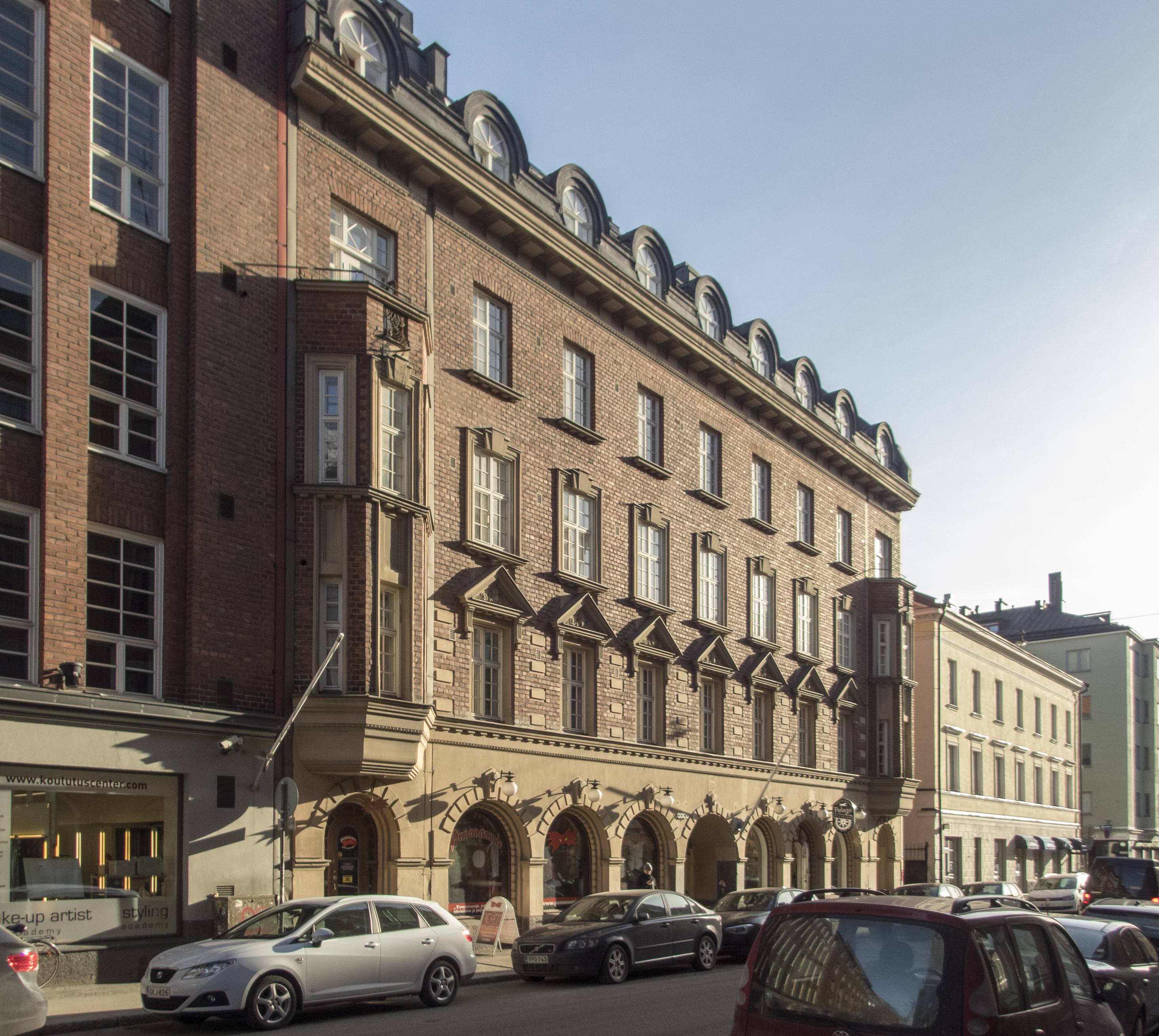 Kalevankatu 32, Helsinki. Built in 1917. Architects Wäinö Palmqvist & Einar Sjöström